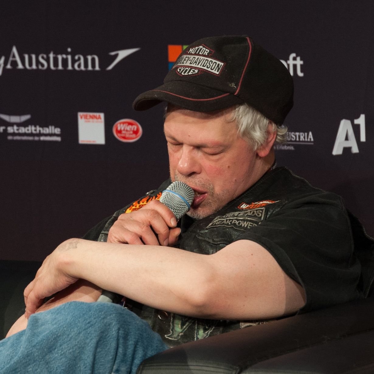 Eurovision Song Contest Vienna 2015: Pertti Kurikan Nimipäivät